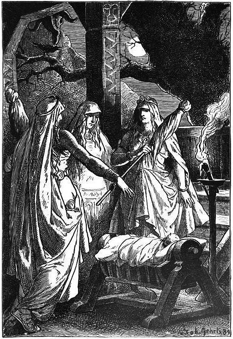 "Die Nornen" (1889) by Johannes Gehrts. The three norns surround a child.